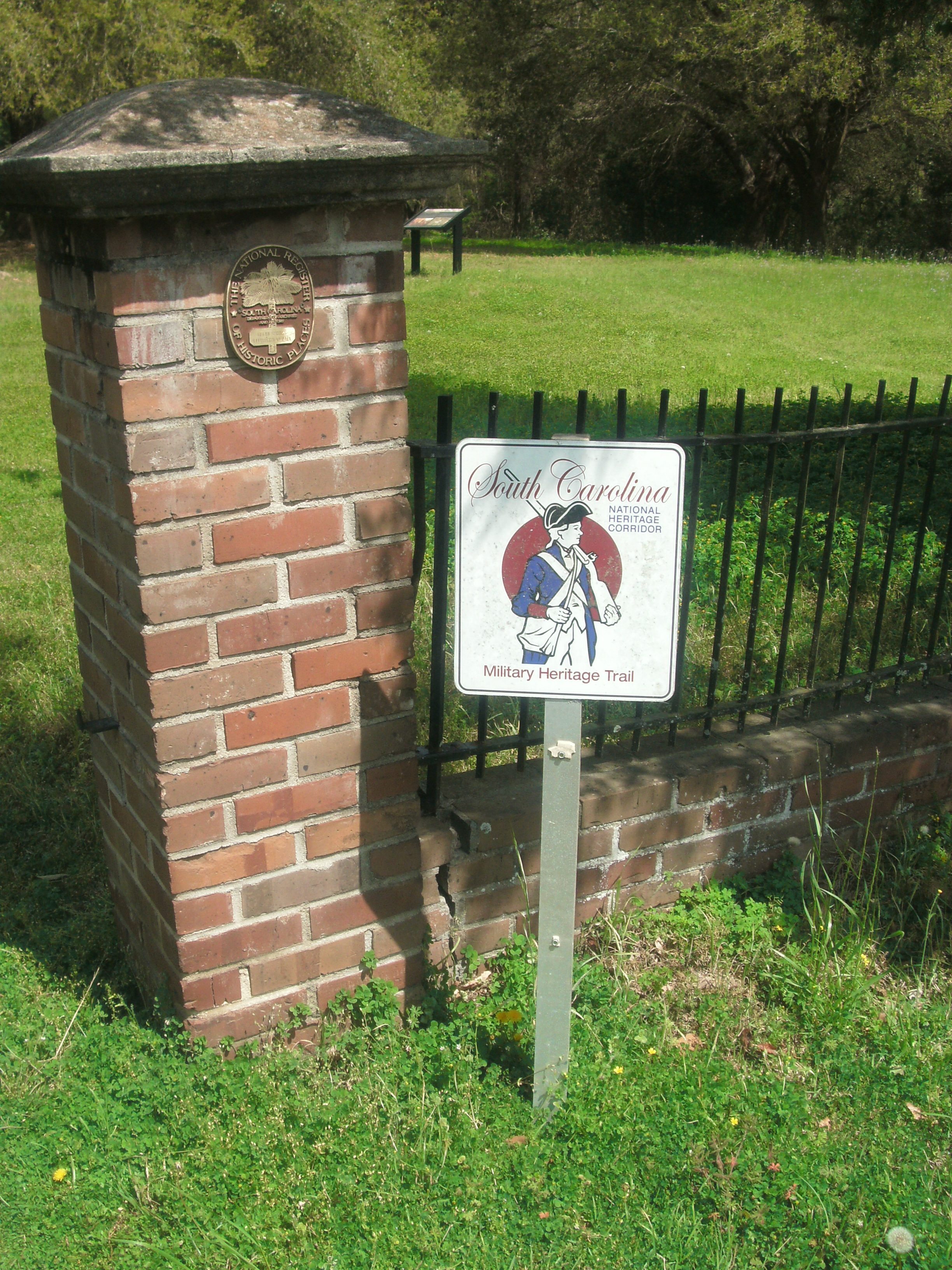 Taken by me in 2015 GEDSC DIGITAL CAMERA